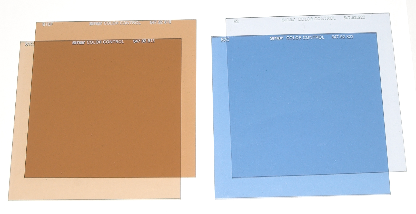 Filtres LB (light balancing)